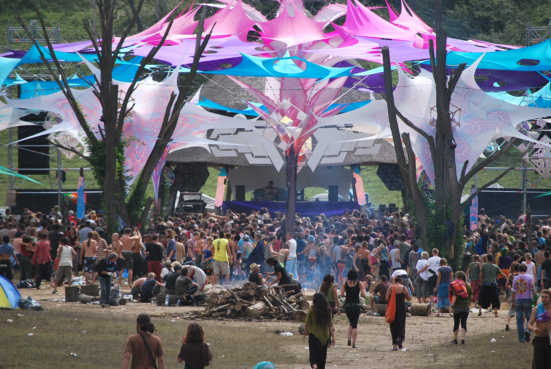 pictures from beautiful ozora trance festival 2010 Hungary, Ozora Pictures are unedited and uncroped jpgs. Pictures are free to use however you want. You can change them and republish. No credits needed. Just keep sharing!